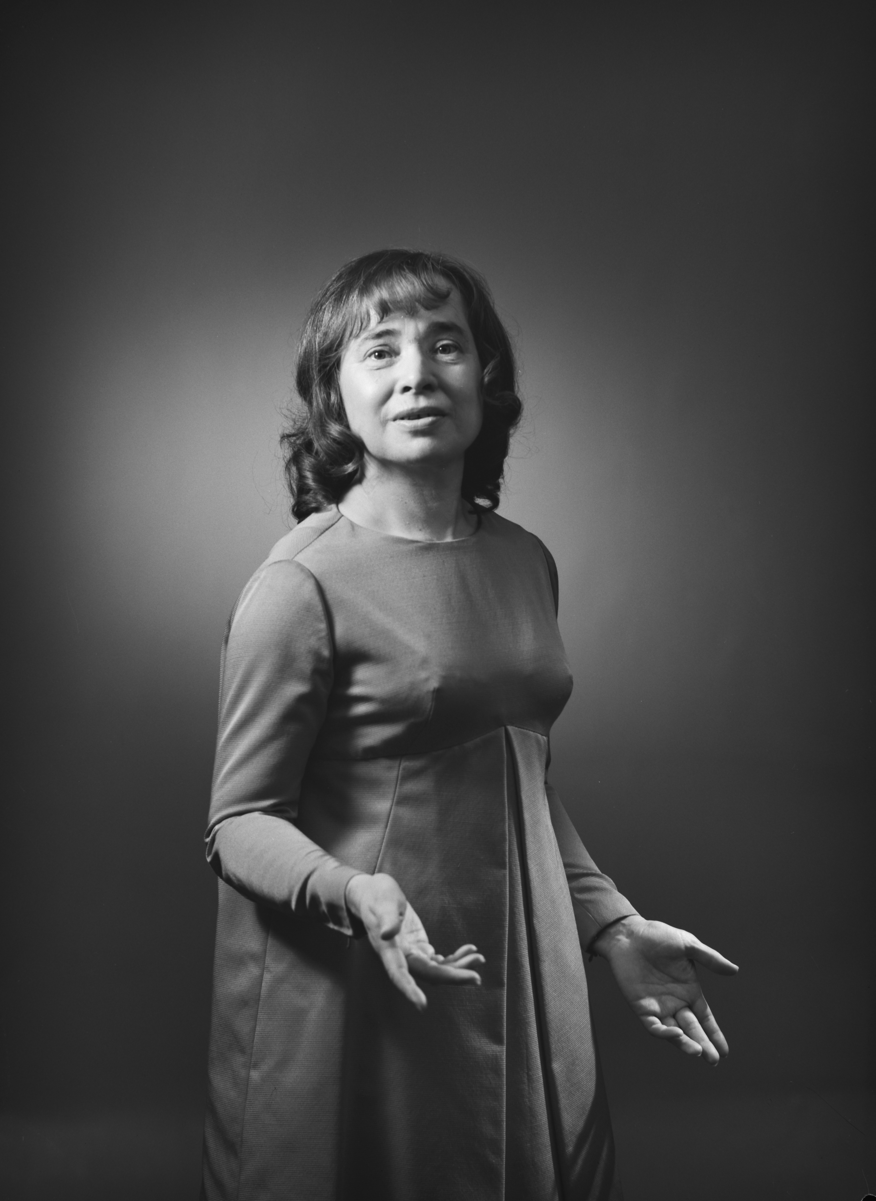 Annikki Yrjänäinen (1928–2009), Finnish poetry reciter and Sibelius Academy voice pedagogue